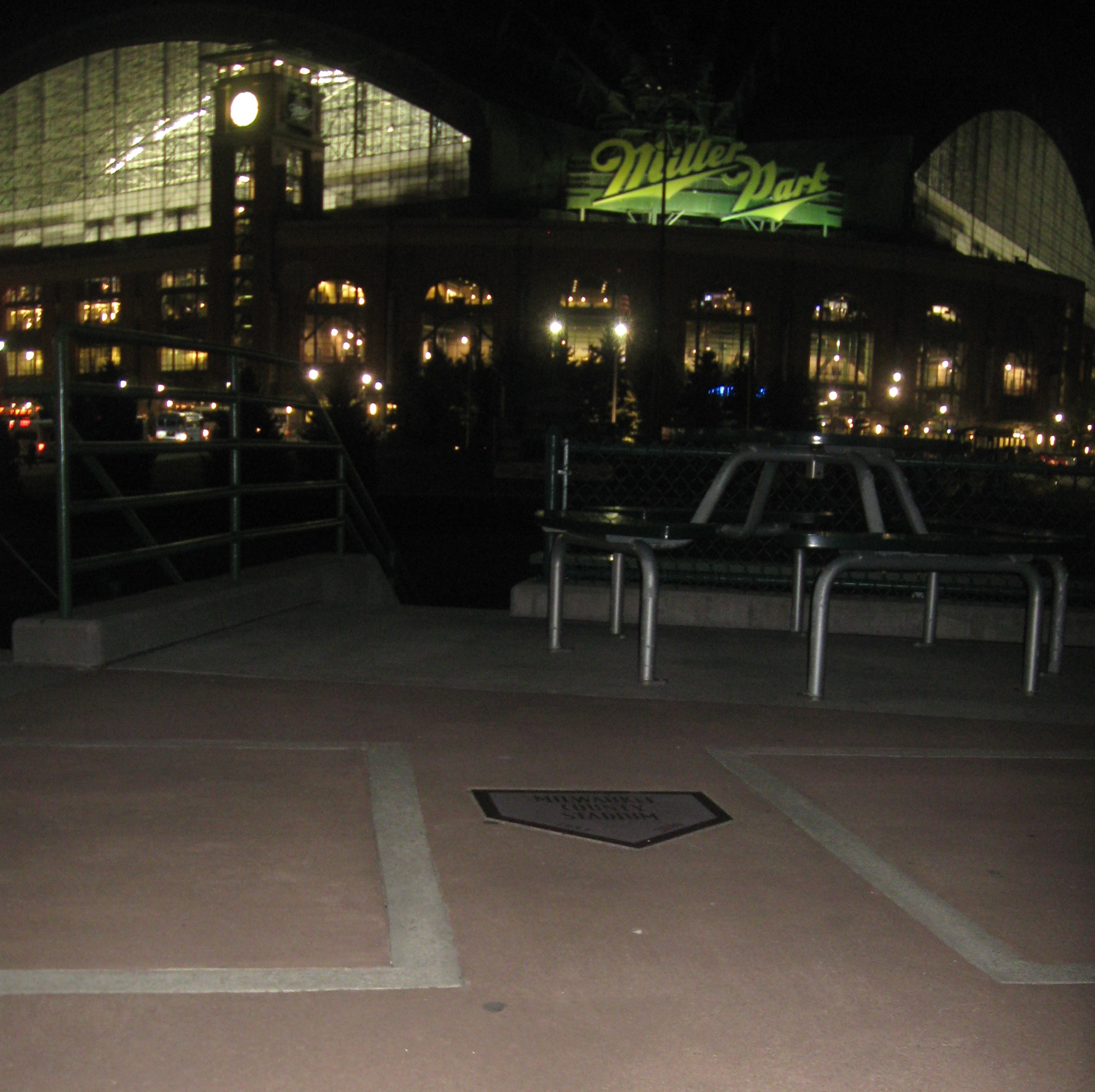 County Stadium Home Plate April 17, 2012